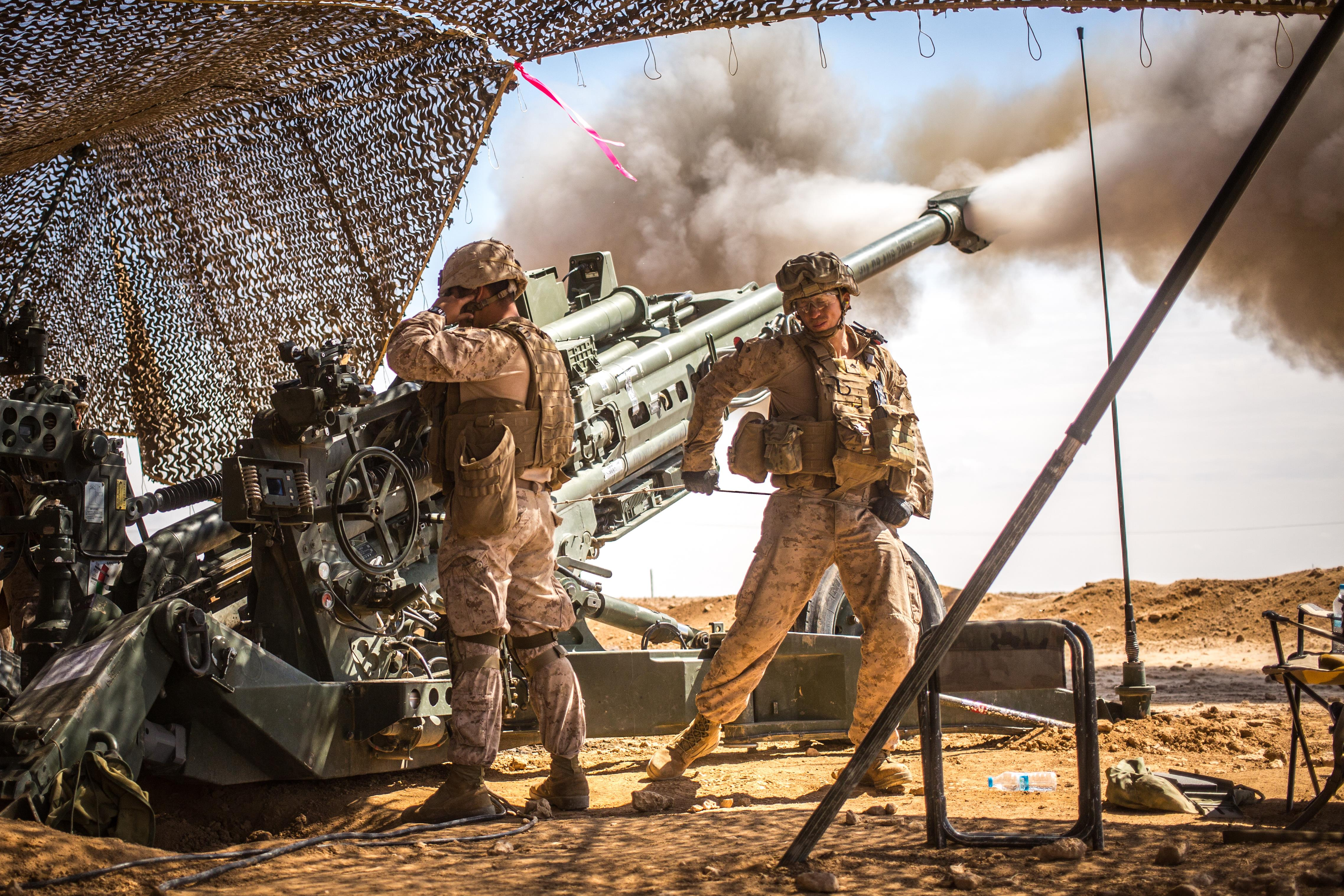 SYRIA - U.S. Marines with the 11th Marine Expeditionary Unit fire an M777 Howitzer during a fire mission in northern Syria as part of Operation Inherent Resolve, Mar. 24, 2017. The unit provided 24/7 support in all weather conditions to allow for troop movements, to include terrain denial and the subduing of enemy forces. More than 60 regional and international nations have joined together to enable partnered forces to defeat ISIS and restore stability and security. CJTF-OIR is the global Coalition to defeat ISIS in Iraq and Syria.